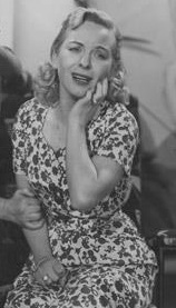 Lita Soriano-actriz